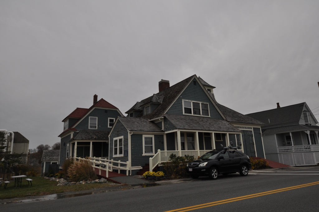 The Allerton Life Saving Station, now a museum, Hull, Massachusetts.